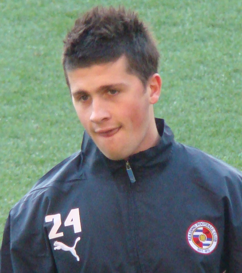 Shane Long warming up against Aston Villa